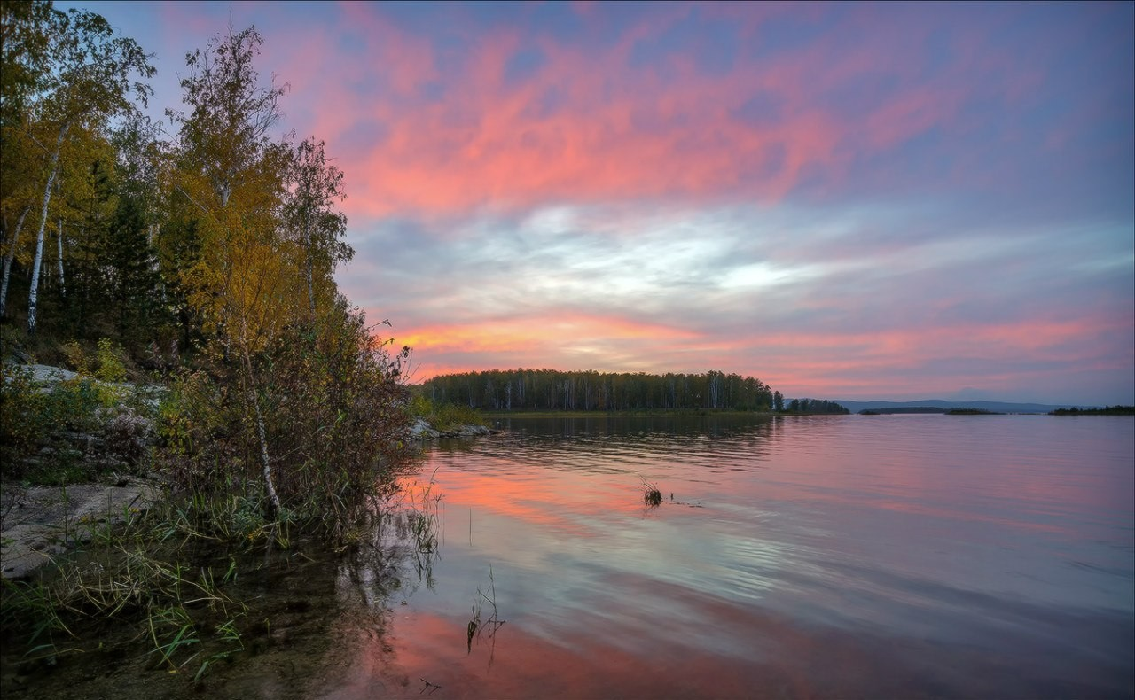 Novokyshtym Reservoir